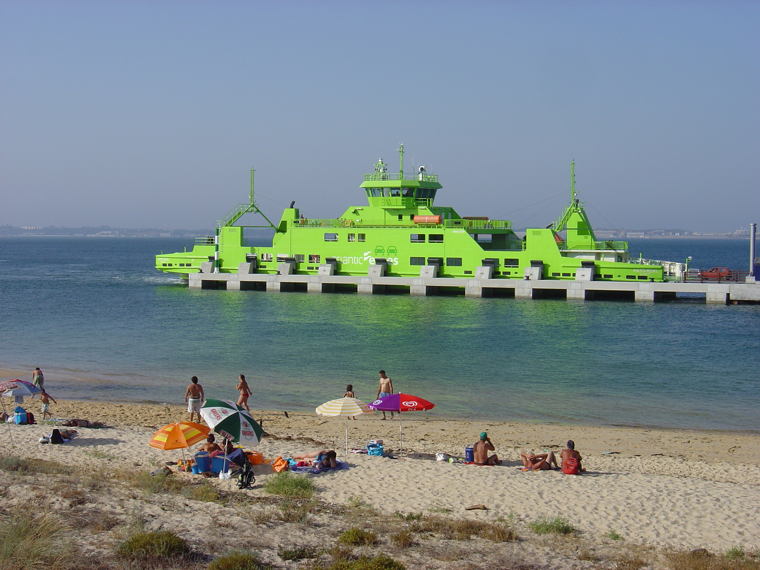 Pato Real - IMO 9418224 : Tróia, Grândola, Portugal